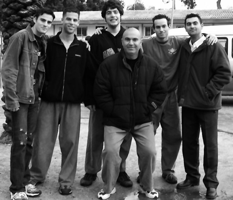 Academia Aiki Krav Maga - Ami Niv's black belt students